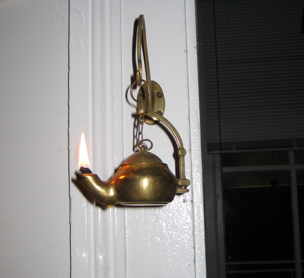 Common factory produced brass olive oil lamp from Italy, c. late 19th century to c. 1900